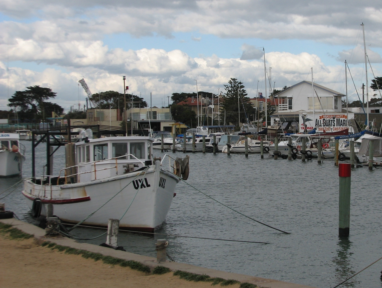 Mordialloc Creek, Victoria, Australia